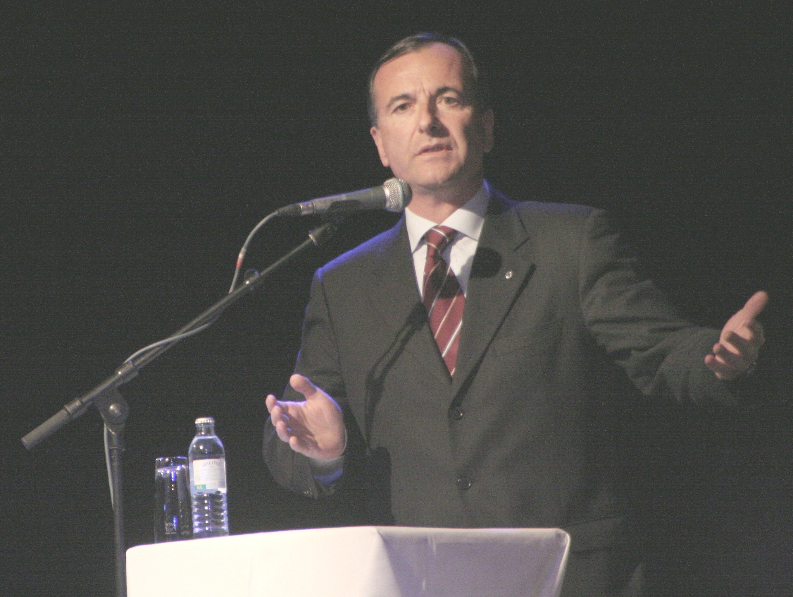 Franco Frattini at the opening ceremony of the 54th international session of the European Youth Parliament in Potsdam.